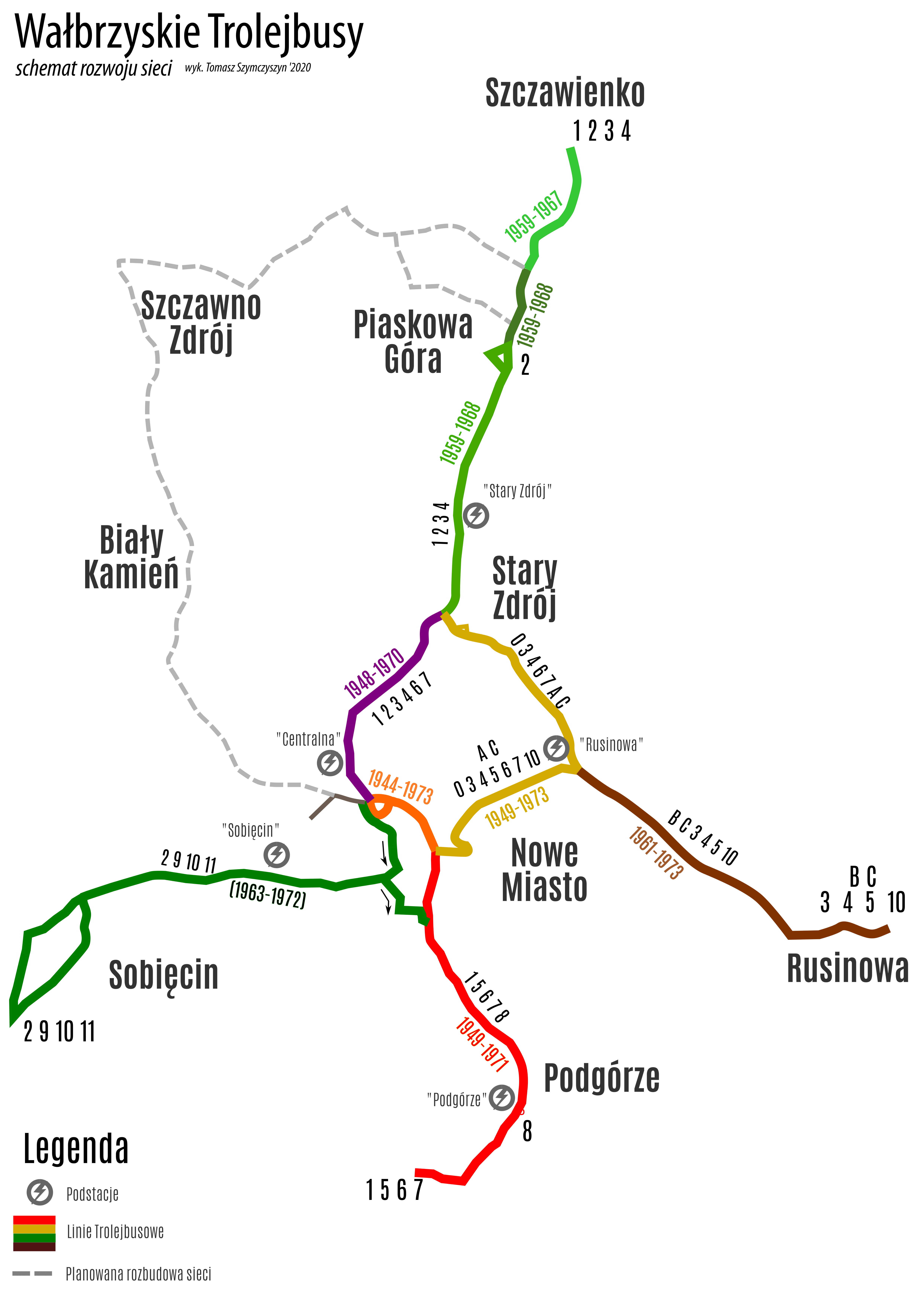 Scheme of trolleybus lines in Wałbrzych